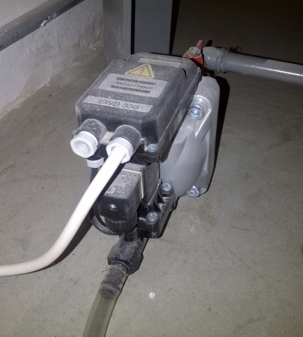 Electronic water drain